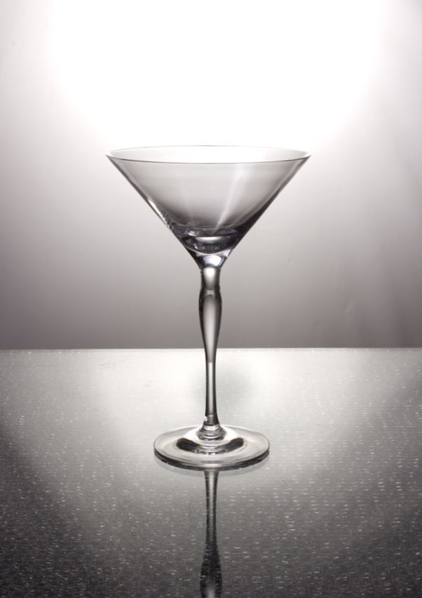 Y-shaped Martini glass (slightly rotated and cropped)